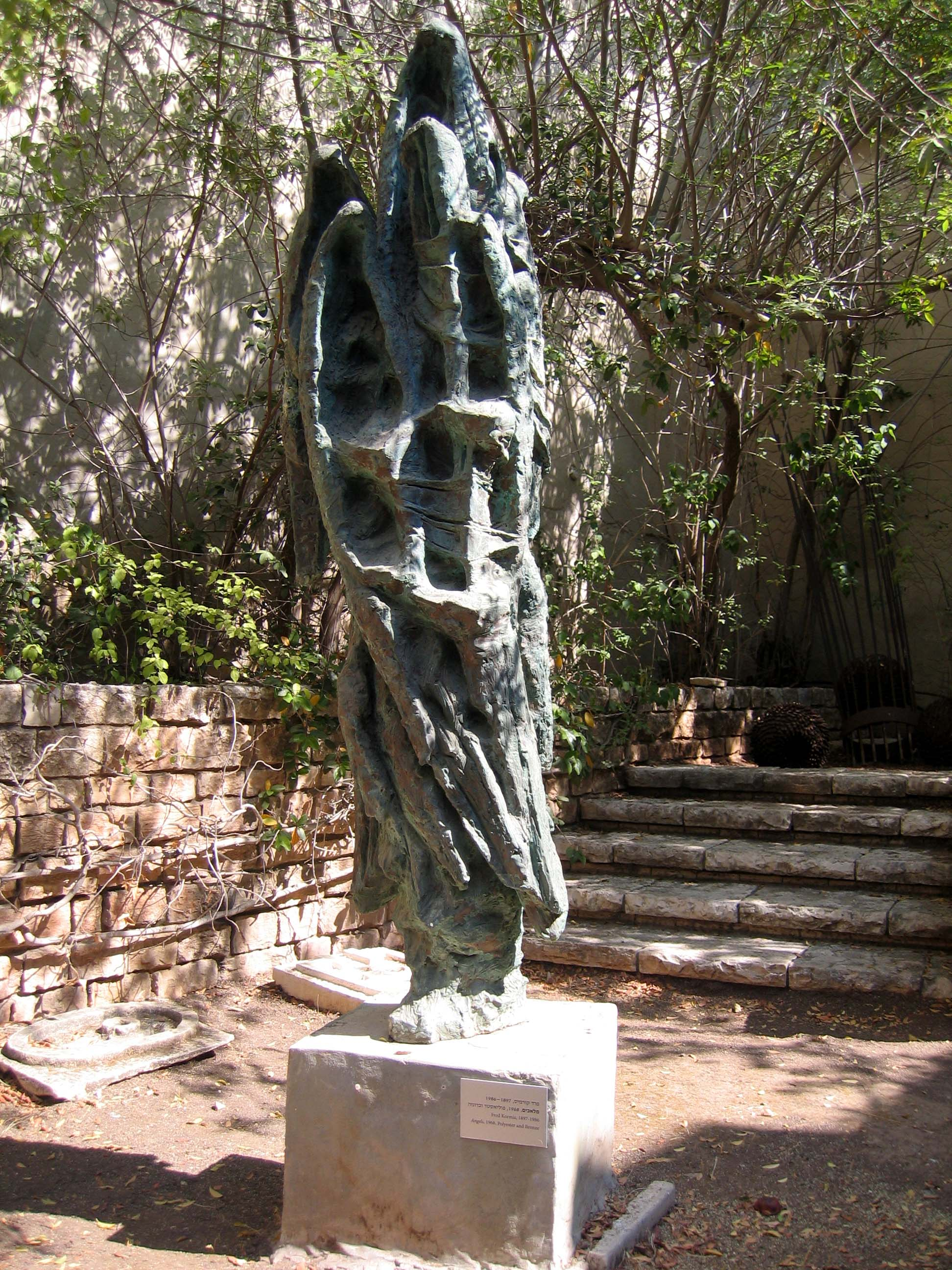 Angels (1968) by Fred Kormis. Polyester and Bronze.